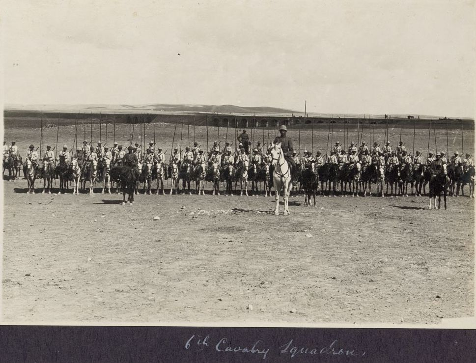 6th Cavalry Squadron, 1917.